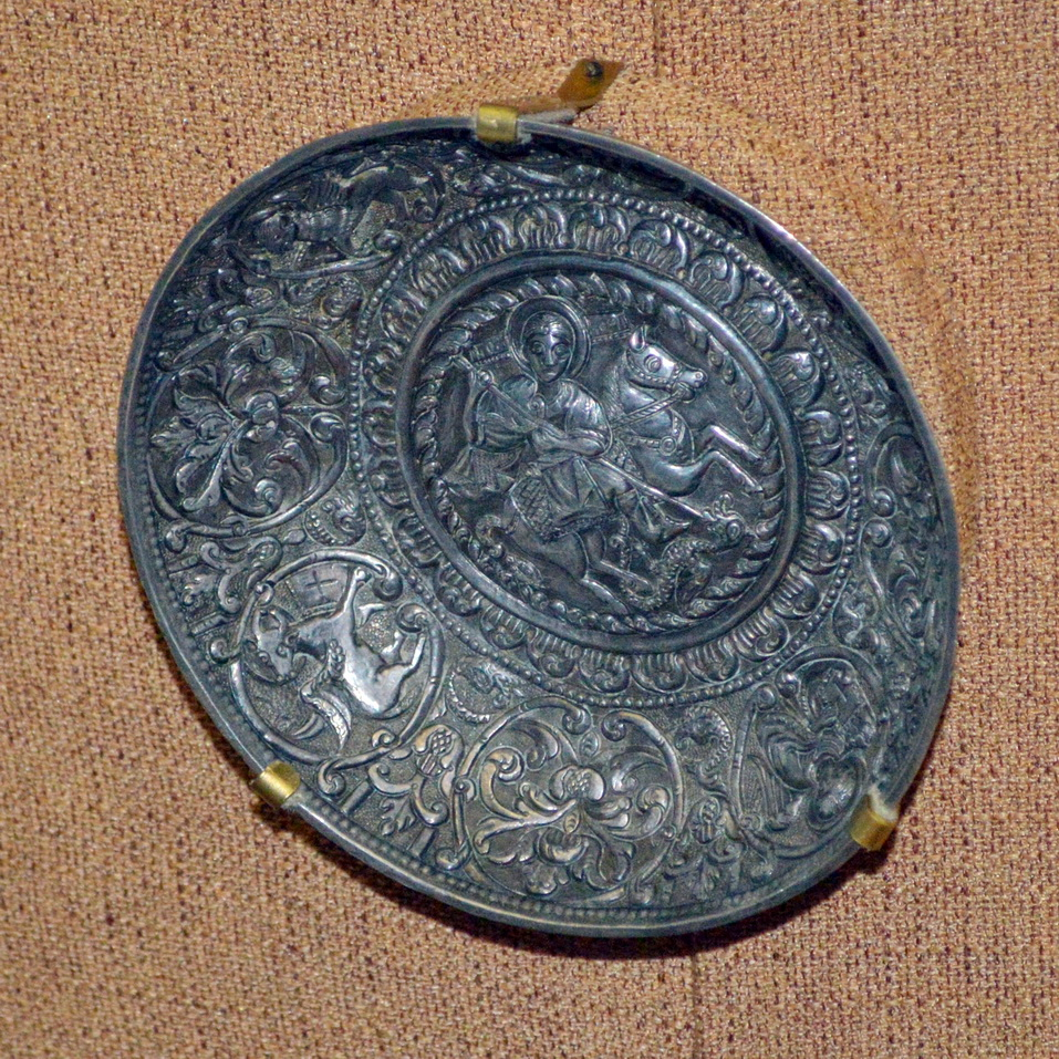 Bowl of Yury Dmitrievich of Zvenigorod and Galich. Moldavia (?), beginnig of 15 century.